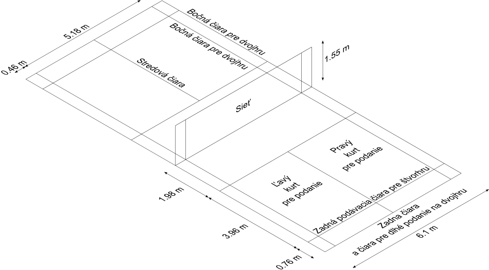 Badminton Court 3D